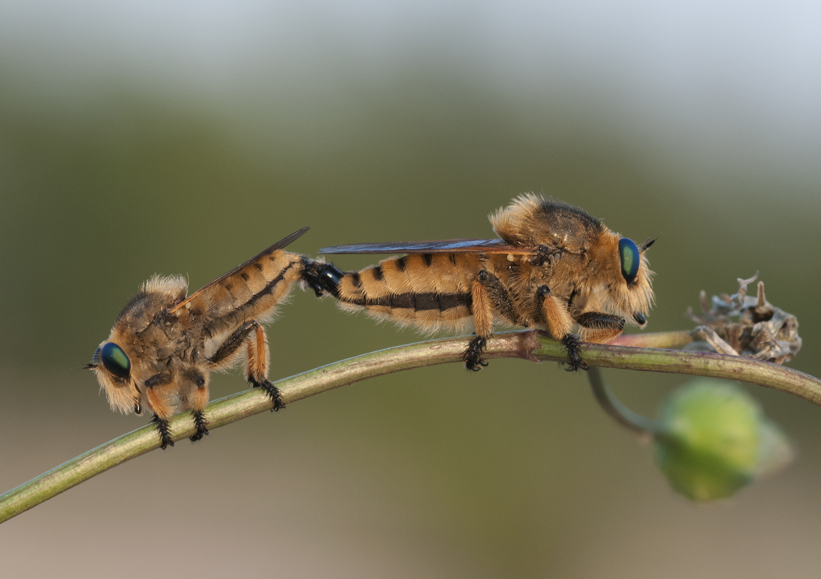 A mating couple of Red Footed Cannibalfly / Bee Panther (Promachus rufipes), a large hunter feeding large bees and wasps. Balcalı - Adana, Turkey.